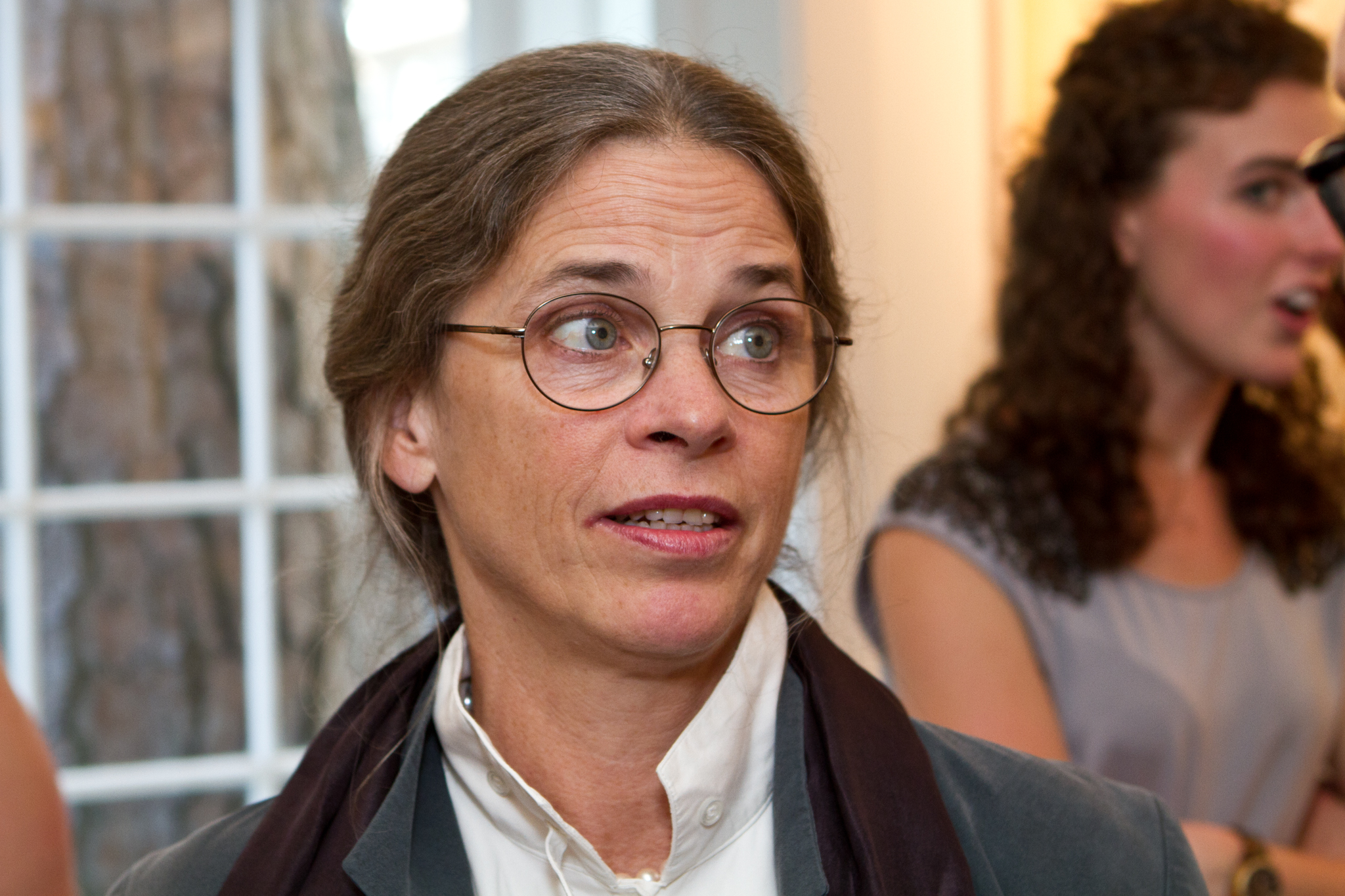 Sally Mann at Jackson Fine Art 9/9/11